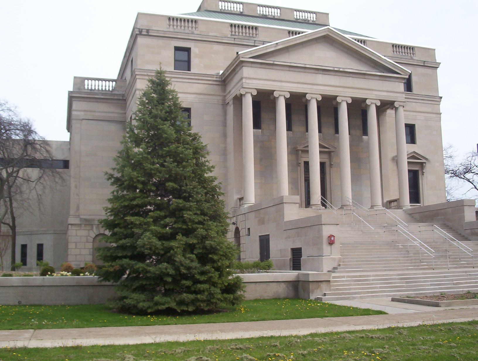 Abbott Hall, which houses the Health Sciences Library at South Campus. Took this picture myself.